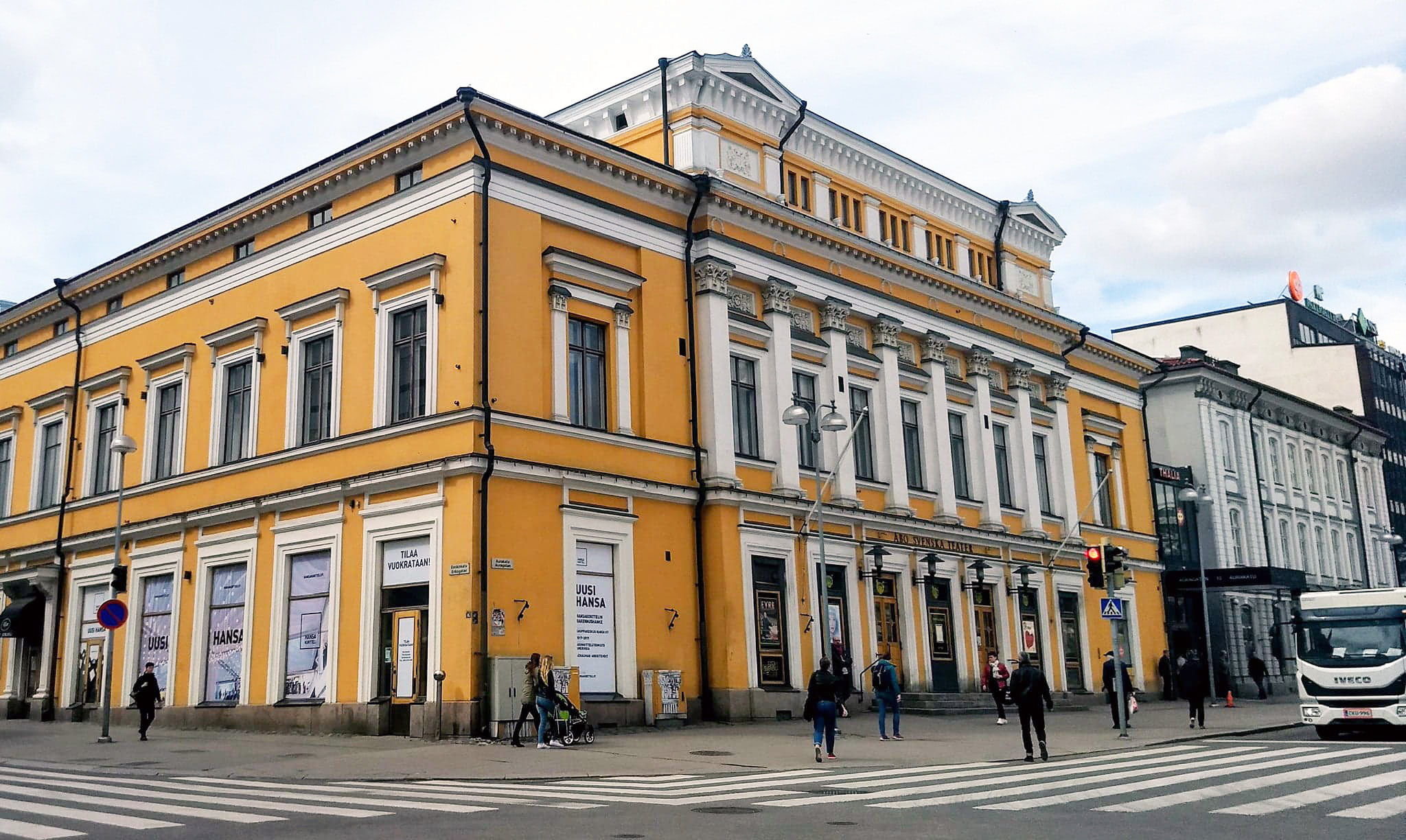 Swedish Theatre in Turku at 2018.